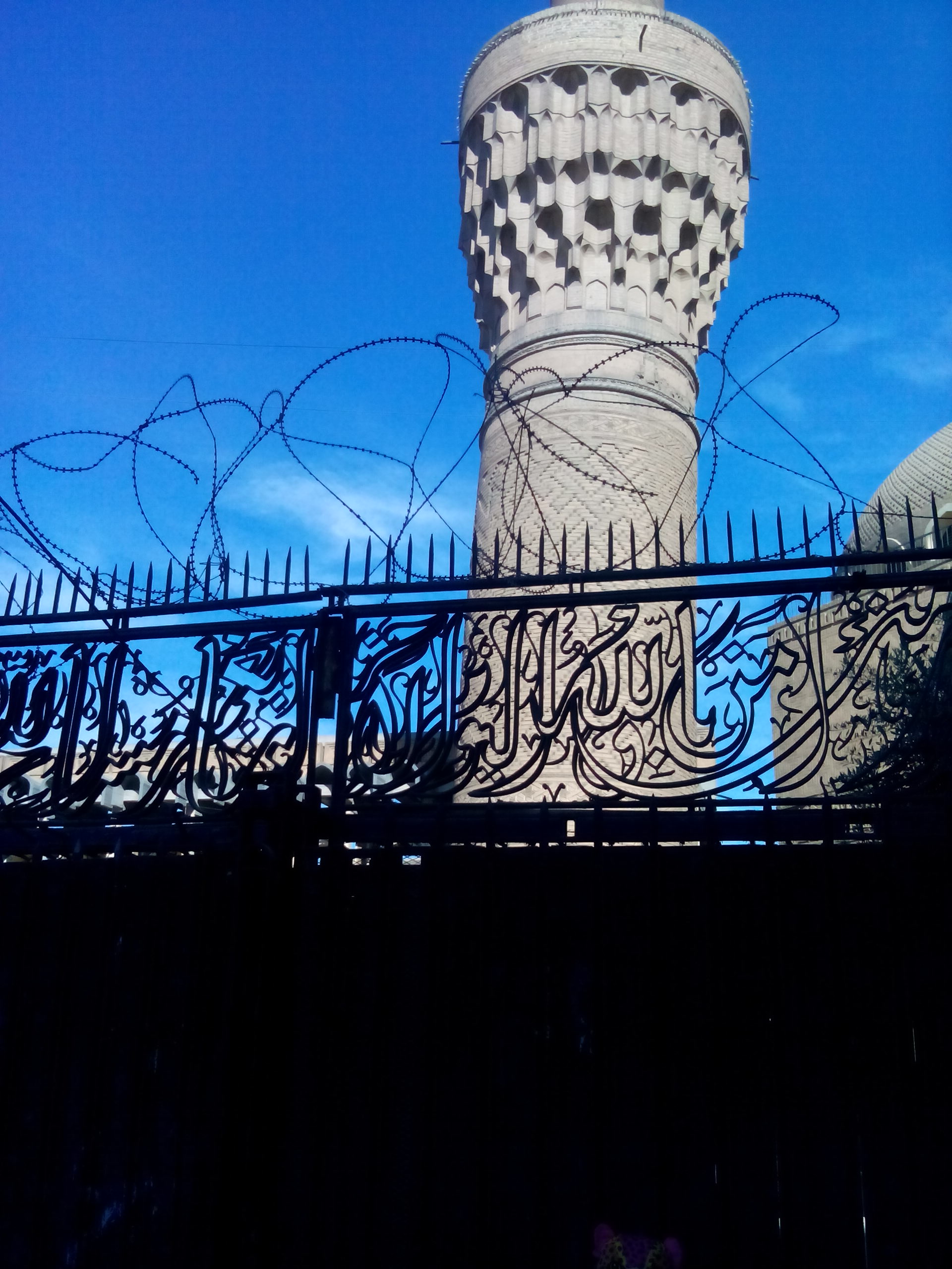 Masjid Al Khulafa' (The Caliph's Mosque) in Baghdad, Built during the Abbasid era